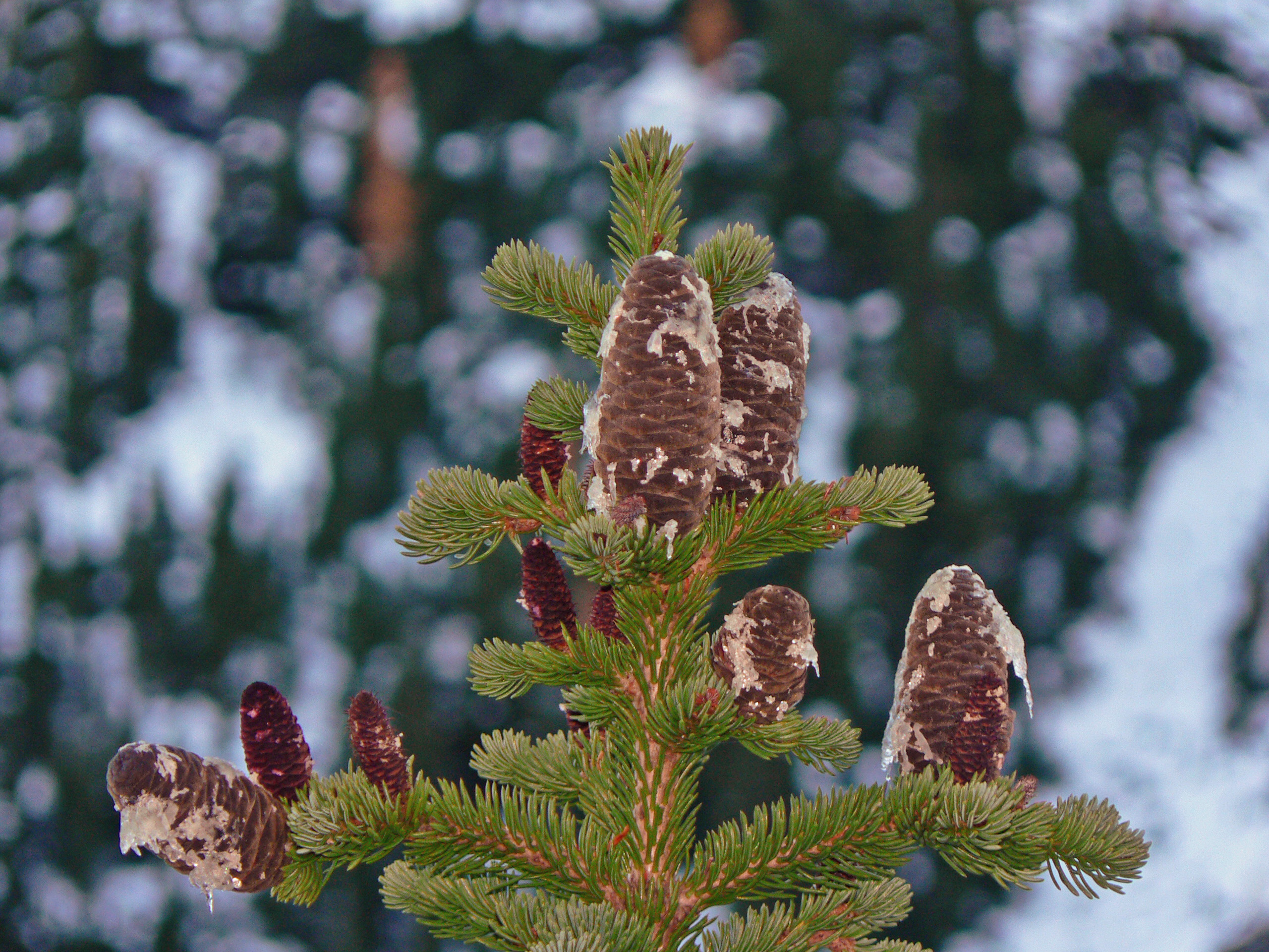 Subalpine Fir